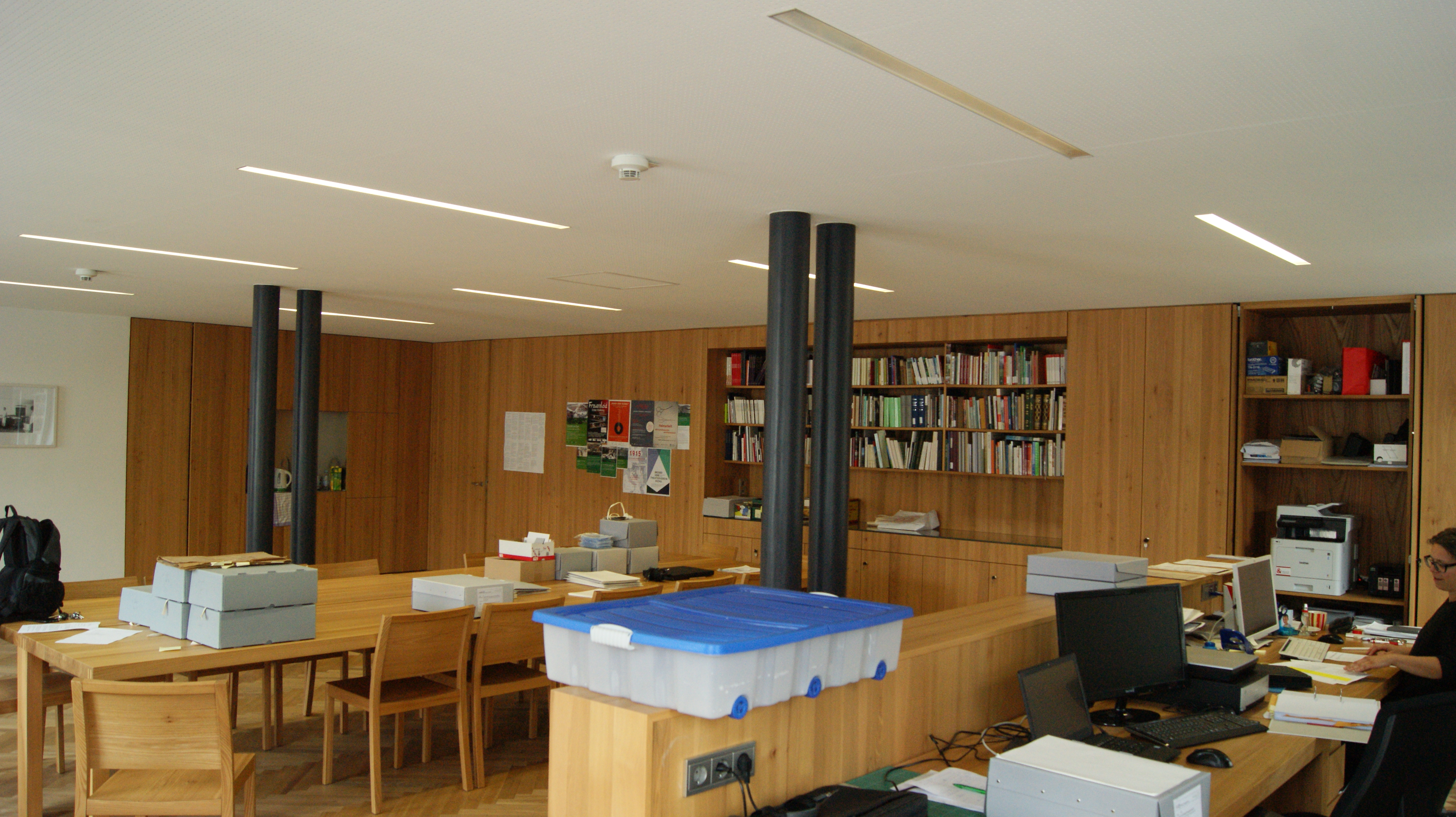 The Bregenzerwald Archive is located in the municipality of Egg in Vorarlberg and is responsible for the 24 municipalities of the Bregenzerwald region (Bregenz Forest).